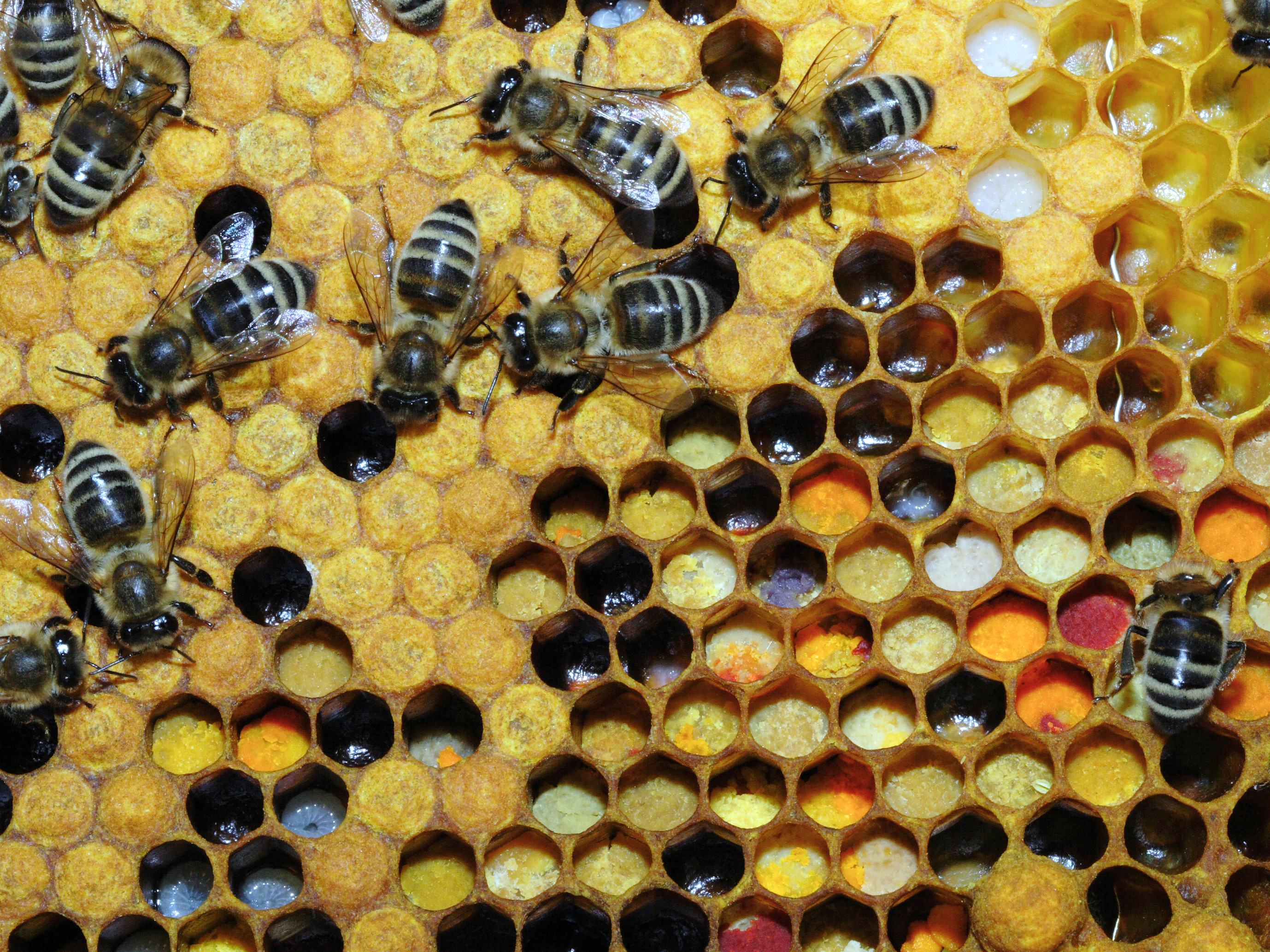 Pollen of various colours stored in the cells of a honeycomb near the brood. Some larvae can be seen, most of the brood cells are already capped.